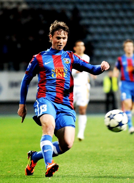 Saulius Mikoliūnas is a Lithuanian football player